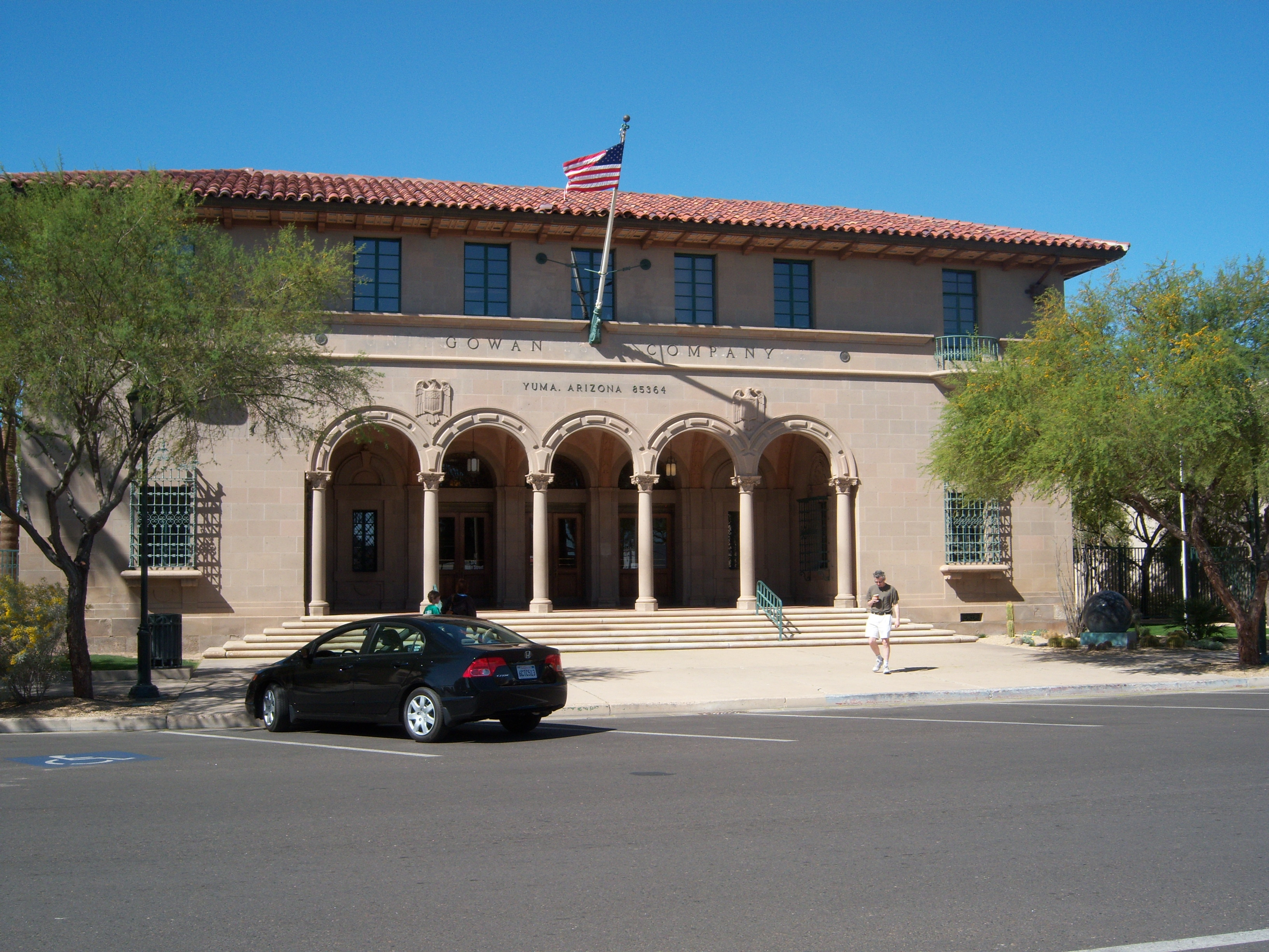 The Gowan Company Building in Yuma, Arizona, previously the Yuma Post Office building. On the National Register of Historic Places.